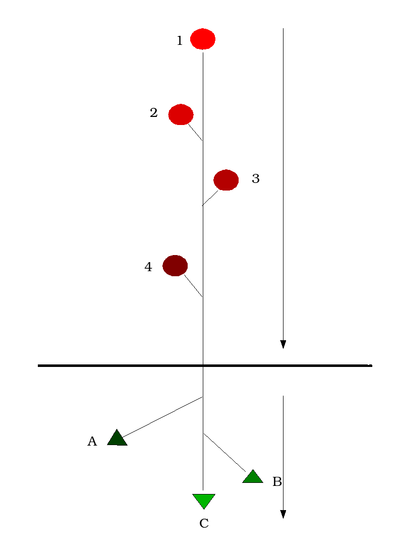 Apical dominance. The amount of auxin produced by bud nr. 1 will inhibit nr. 2 a little, while the combined amounts from 1 and 2 will inhibit nr. 3 a good deal more and so on...